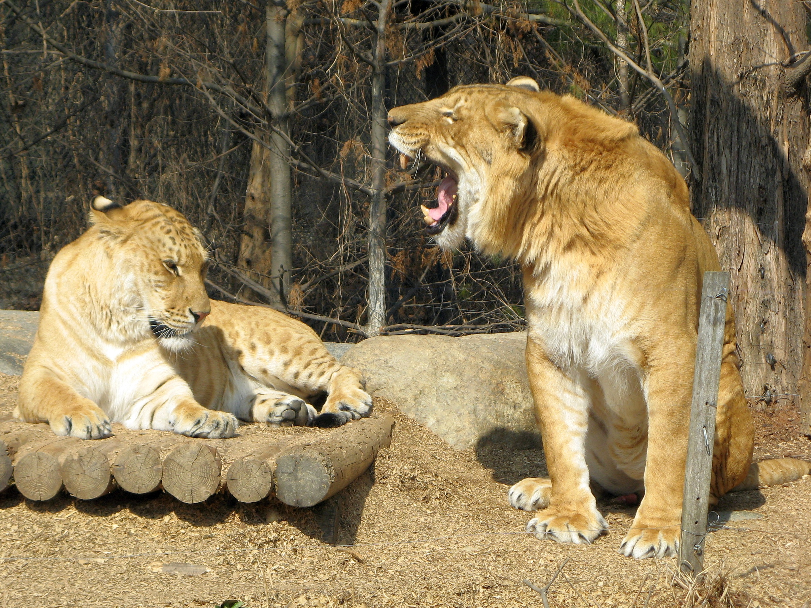 Photo of male and female ligers (a liger is a cross-breed of a male lion and a female tiger) taken at Everland amusement park, South Korea.